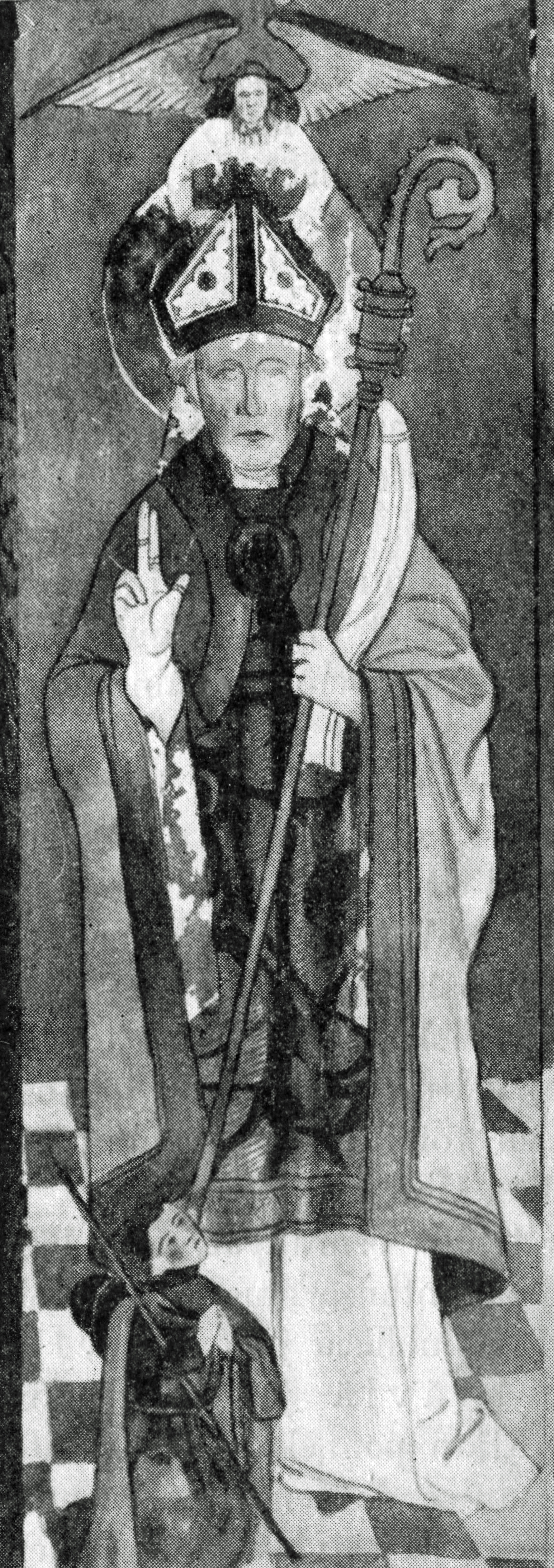 Bishop Hemming of Turku, Finland.